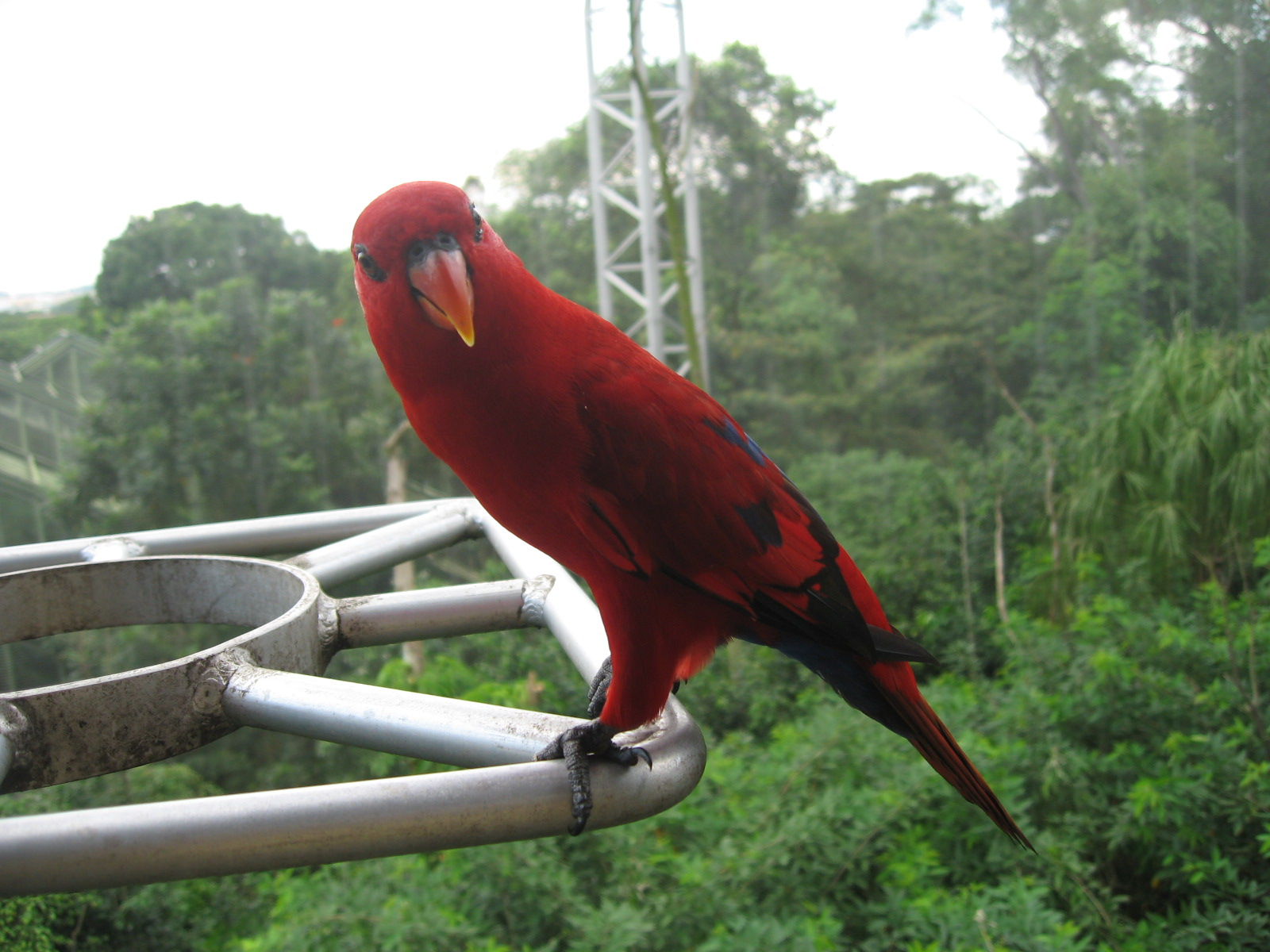 A Red Lory at the Jurong Bird Park, Singapore.